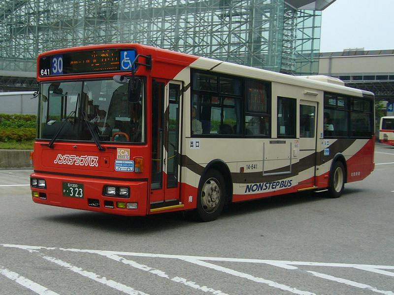 Hokutetsu Bus car at Kanazawa Station, Ishikawa.